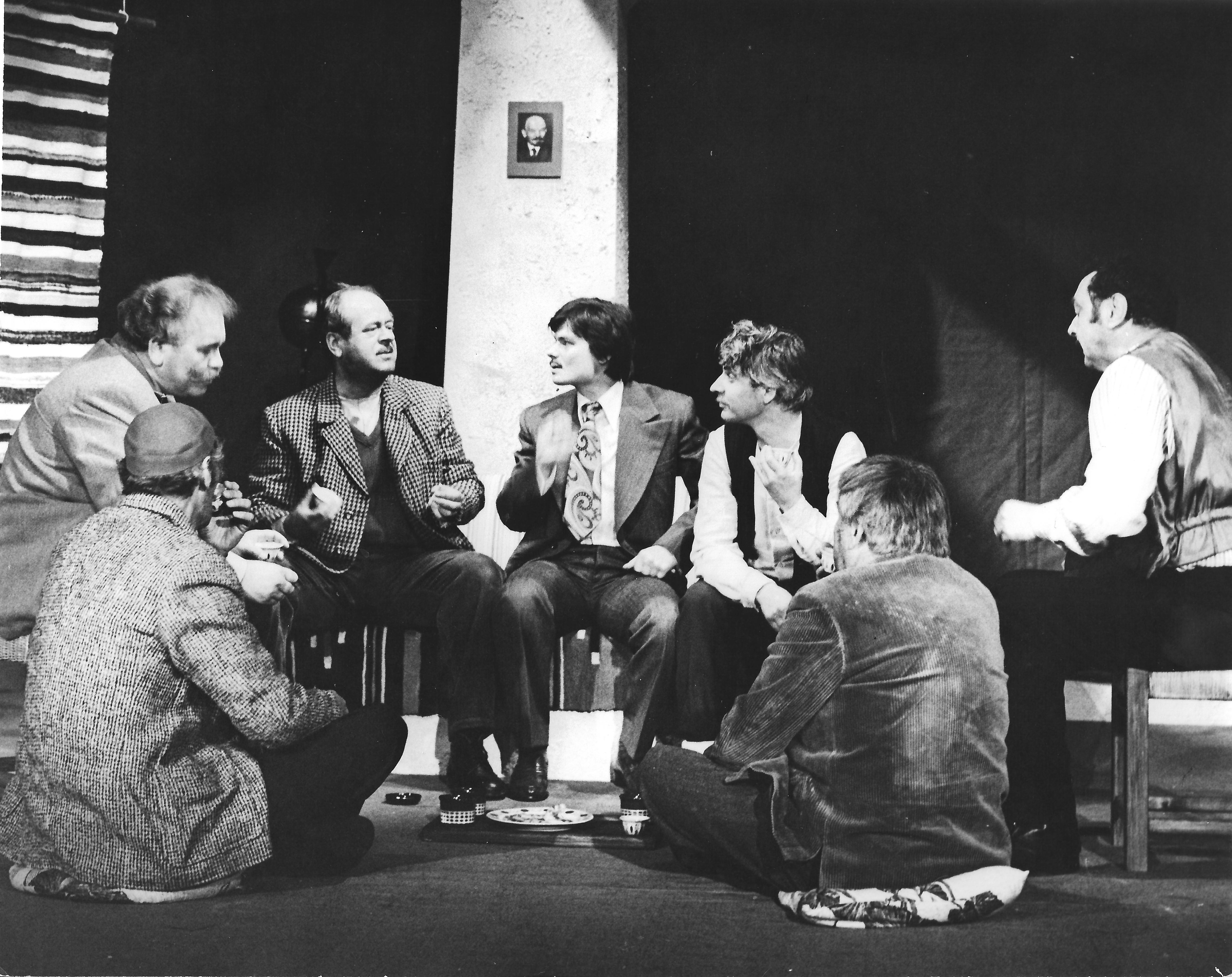 A theatre play directed by Lebanese playwright Jalal Khoury in 1974.